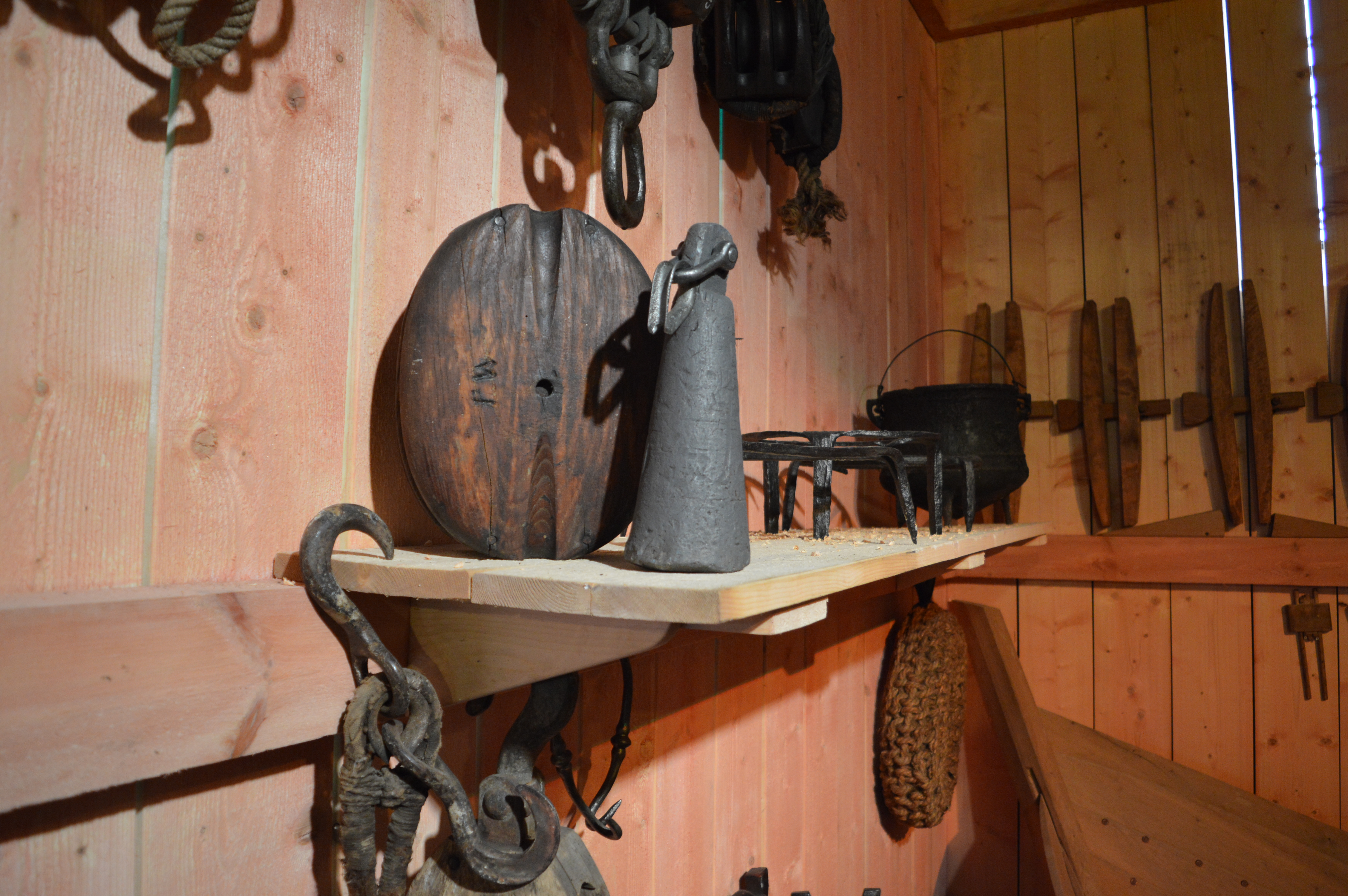 Lead plummet for sounding line. Exhibit in Museum of Fishery in Hel, Poland